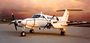 A US Army C-12R Huron assigned to the 214th Avn Bn at Heidelberg AAF, Germany.